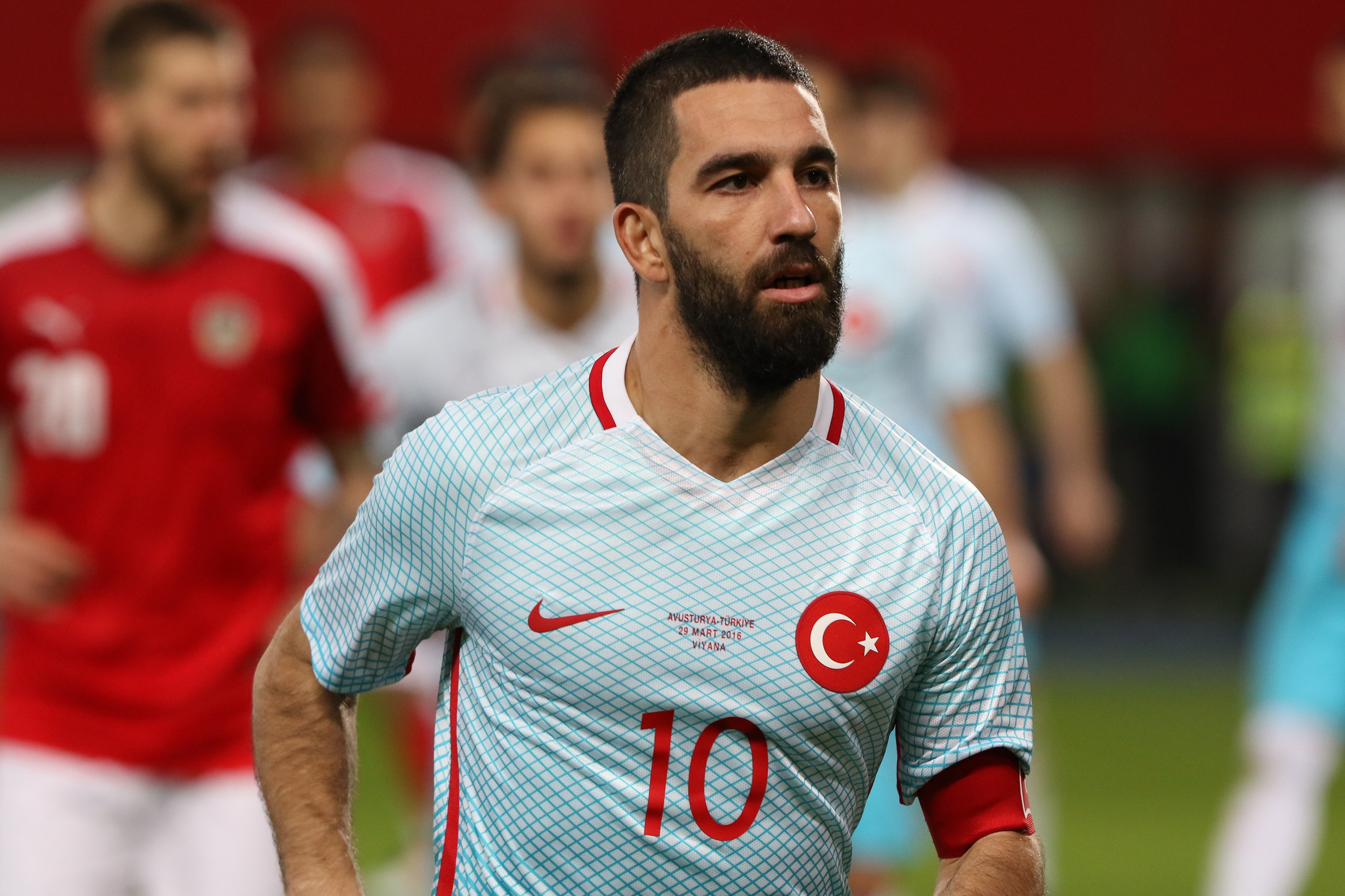 Friendly match – Austria (red shirts) vs. Turkey (blue shirts) 1–2 (1–1) on 2016-03-29 in Ernst-Happel-Stadion, Vienna – The photo shows Arda Turan (FC Barcelona).